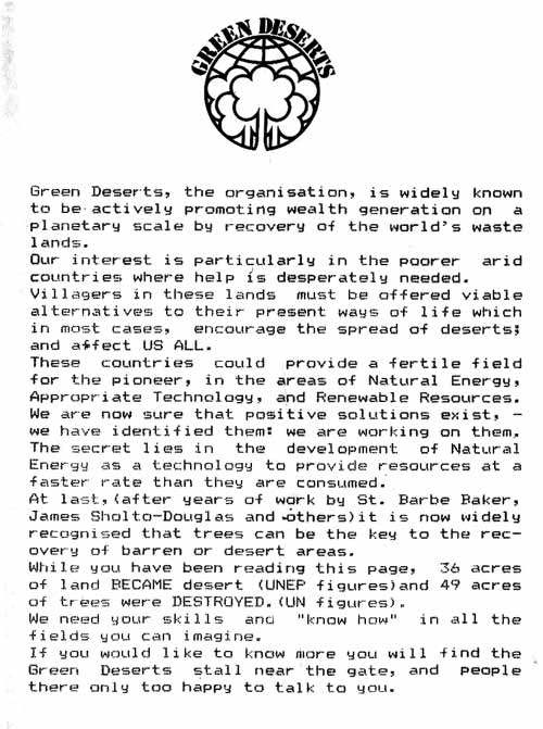 John Agnew founded Green Deserts to plant trees in Saharan Africa c1975. This manifesto, produced in 1982, comes from the Free Festivals site at